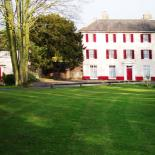 Ripplevale School, located in Ripple, Kent